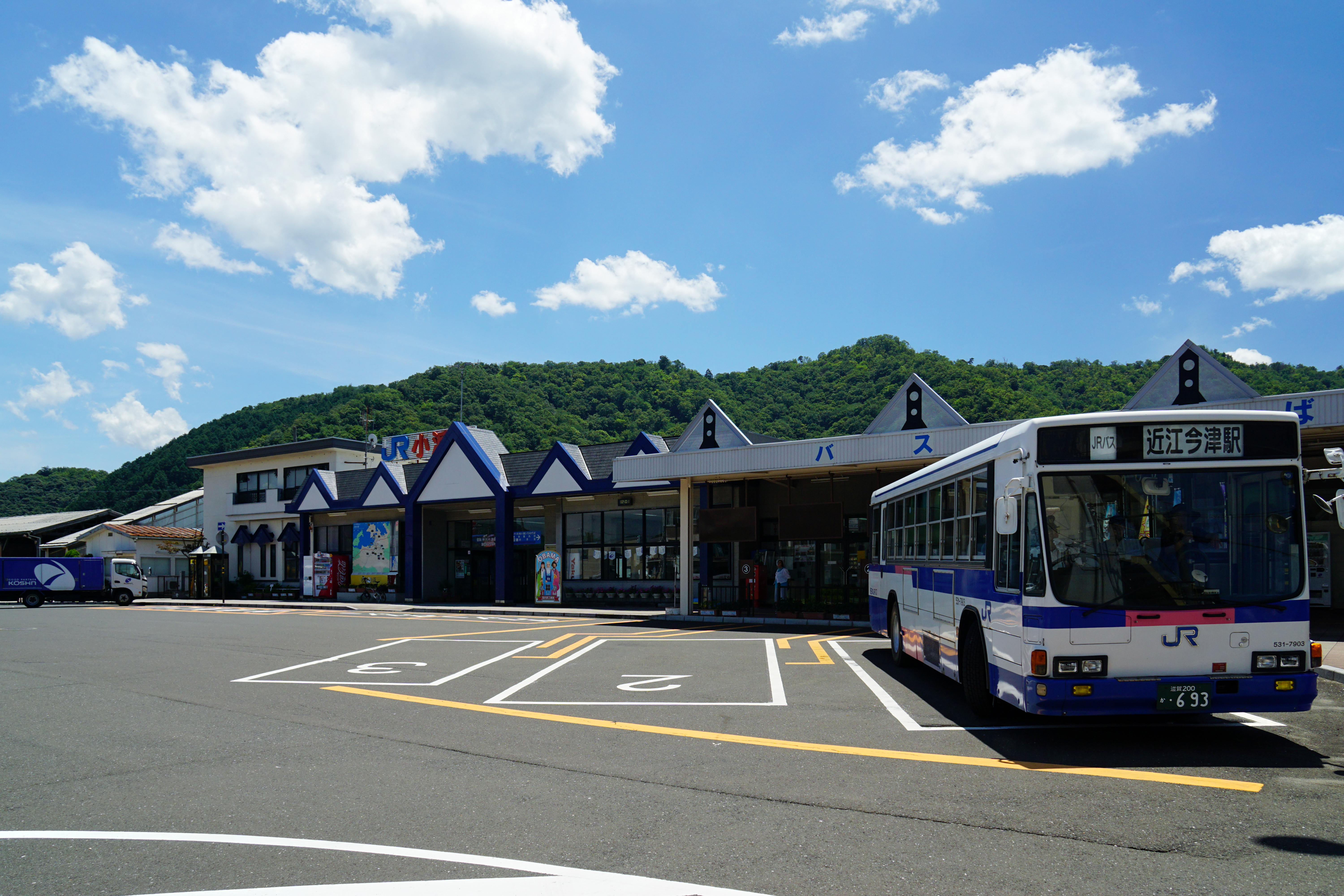 Obama Station in Obama, Fukui prefecture, Japan.